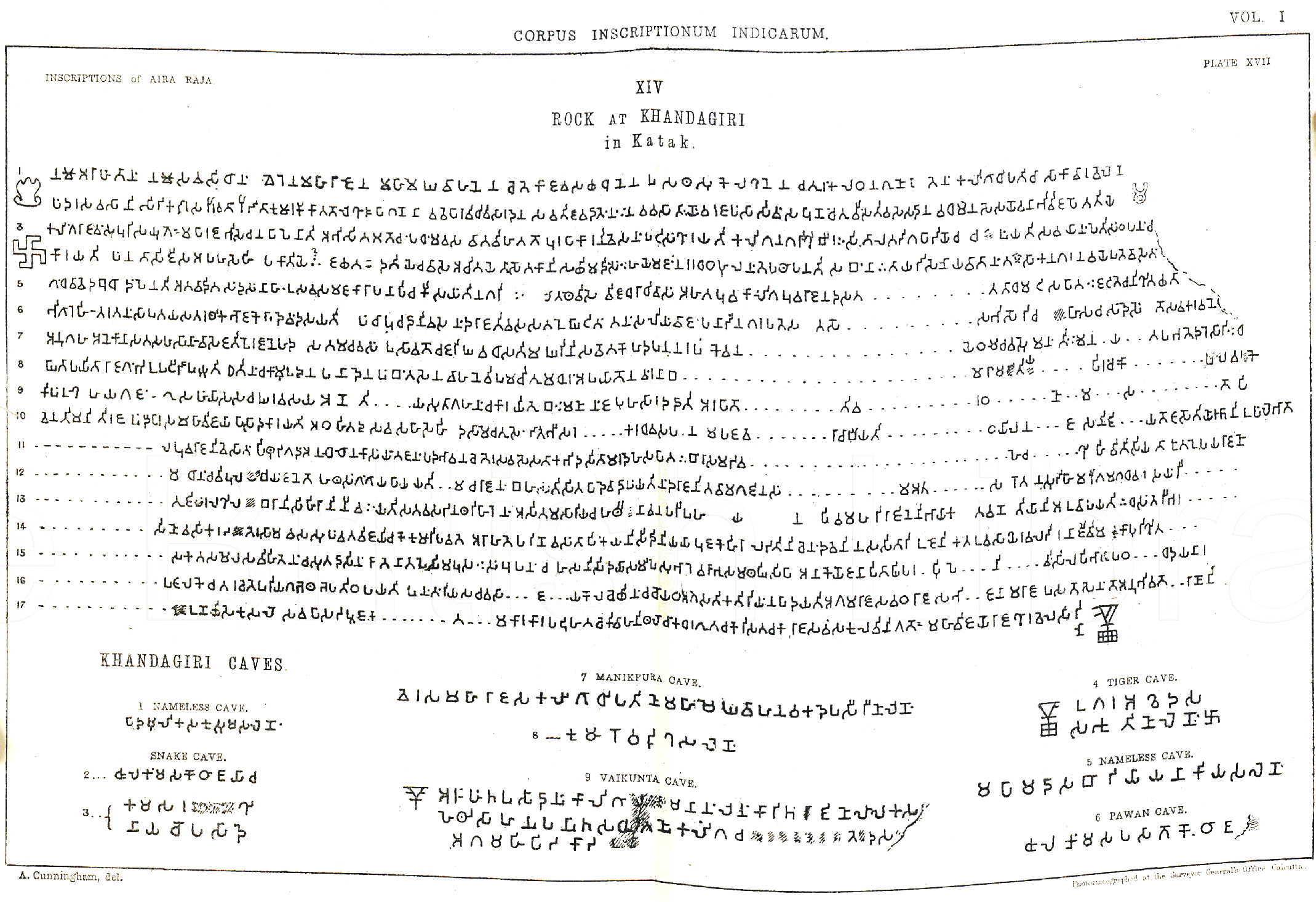 Kharabela's inscription in Kalinga script and Odia language at Hatigumpha, Khandagiri, Bhubaneswar. This image was drawn based on the photographs from the real inscription in by Corpus Inscriptionum Indicarum, Volume I: Inscriptions of Asoka by Alexander Cunningham published in 1827. For some reason, this image and the detailed description of Kharabela's inscriptions in multiple revisions of this book published by other publishers have been discarded. This image is scanned at the British library from the original book.